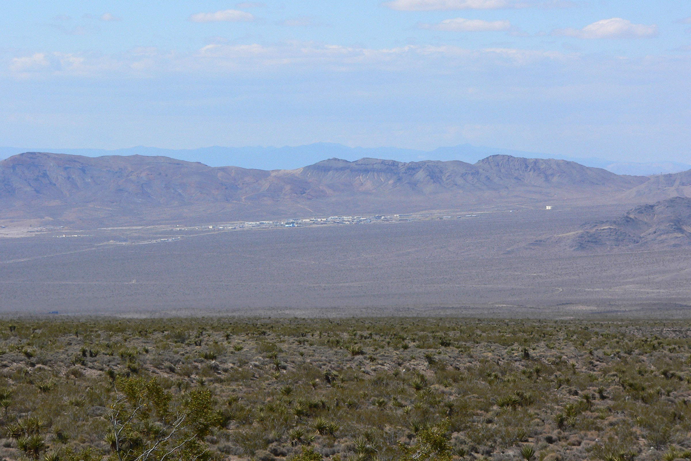 Mercury, Nevada seen from south of I-95